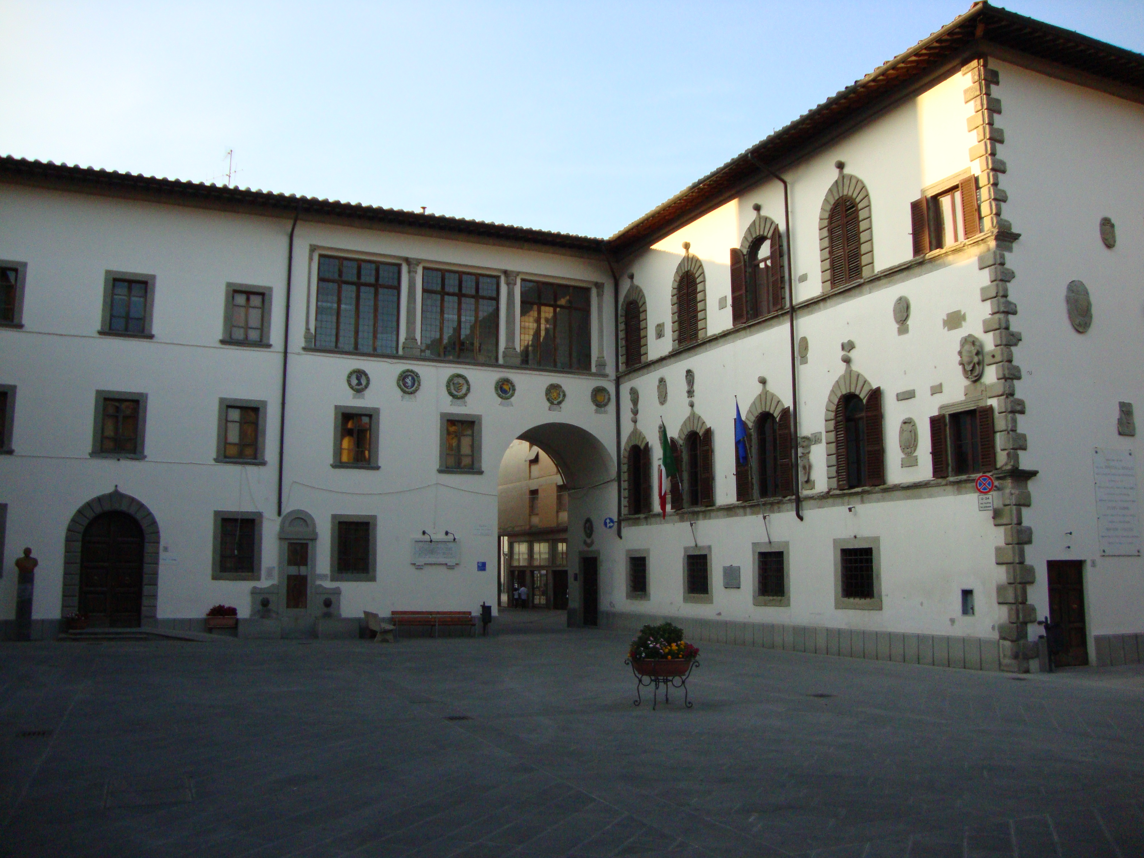 Pieve Santo Stefano - City near Arezzo